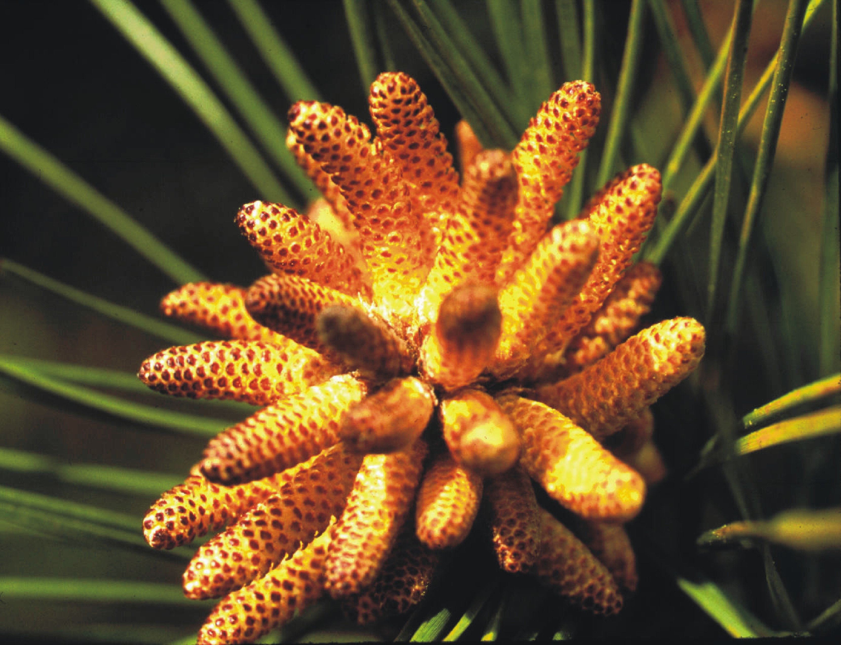 Male pollen cones of loblolly pine (Pinus taeda).